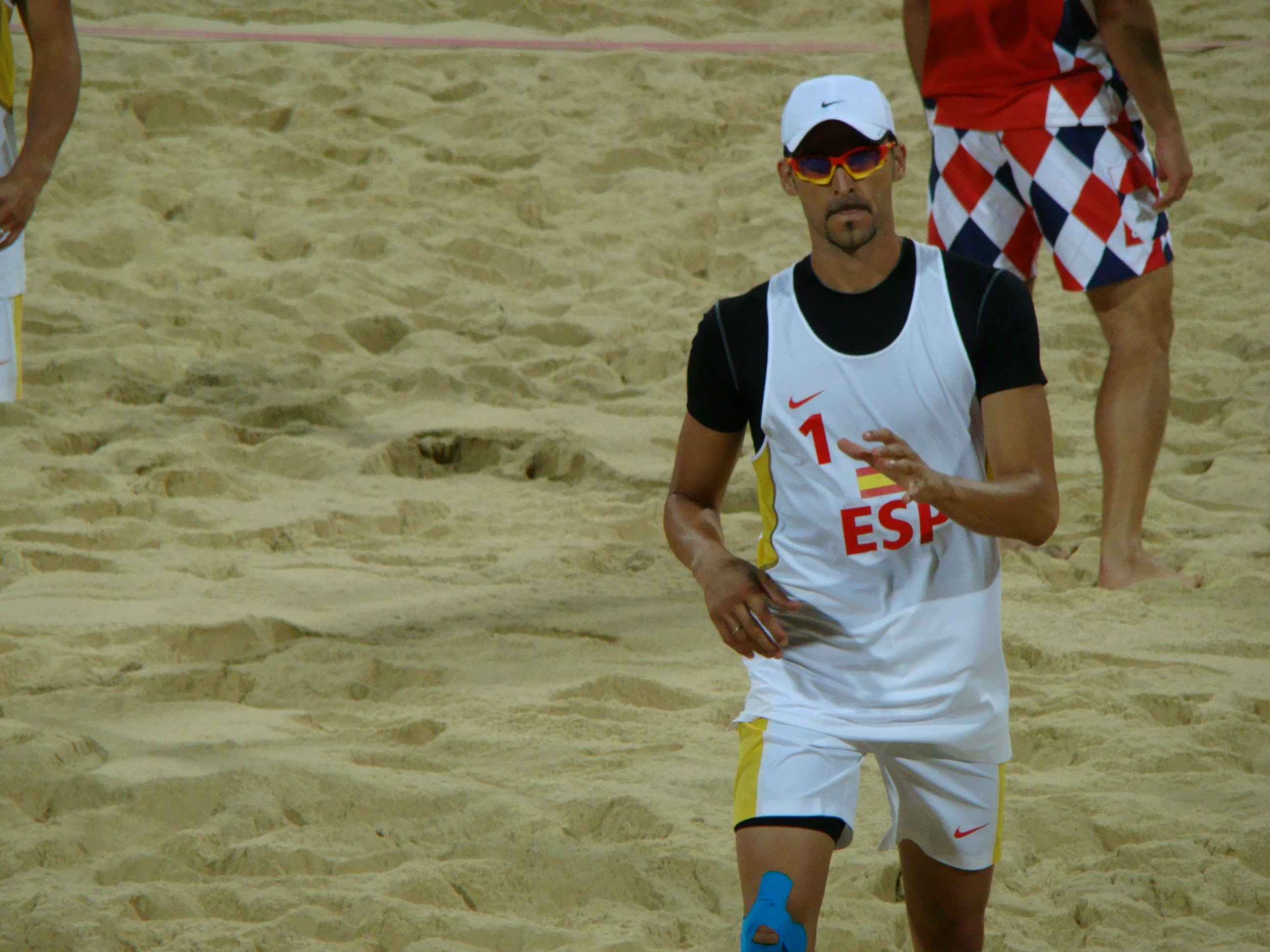 Pablo Herrera competing against the American team during the 2012 Beach Volleyball at the Olympics.